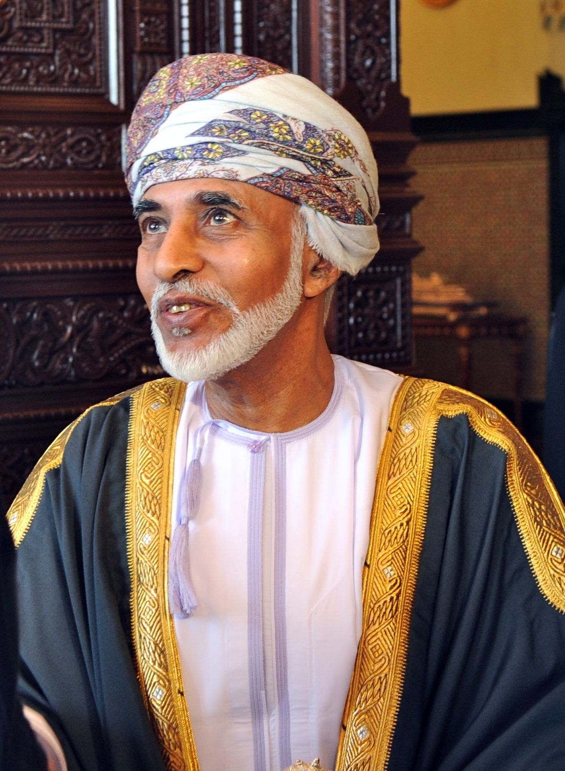 Qaboos Bin Said Al Said